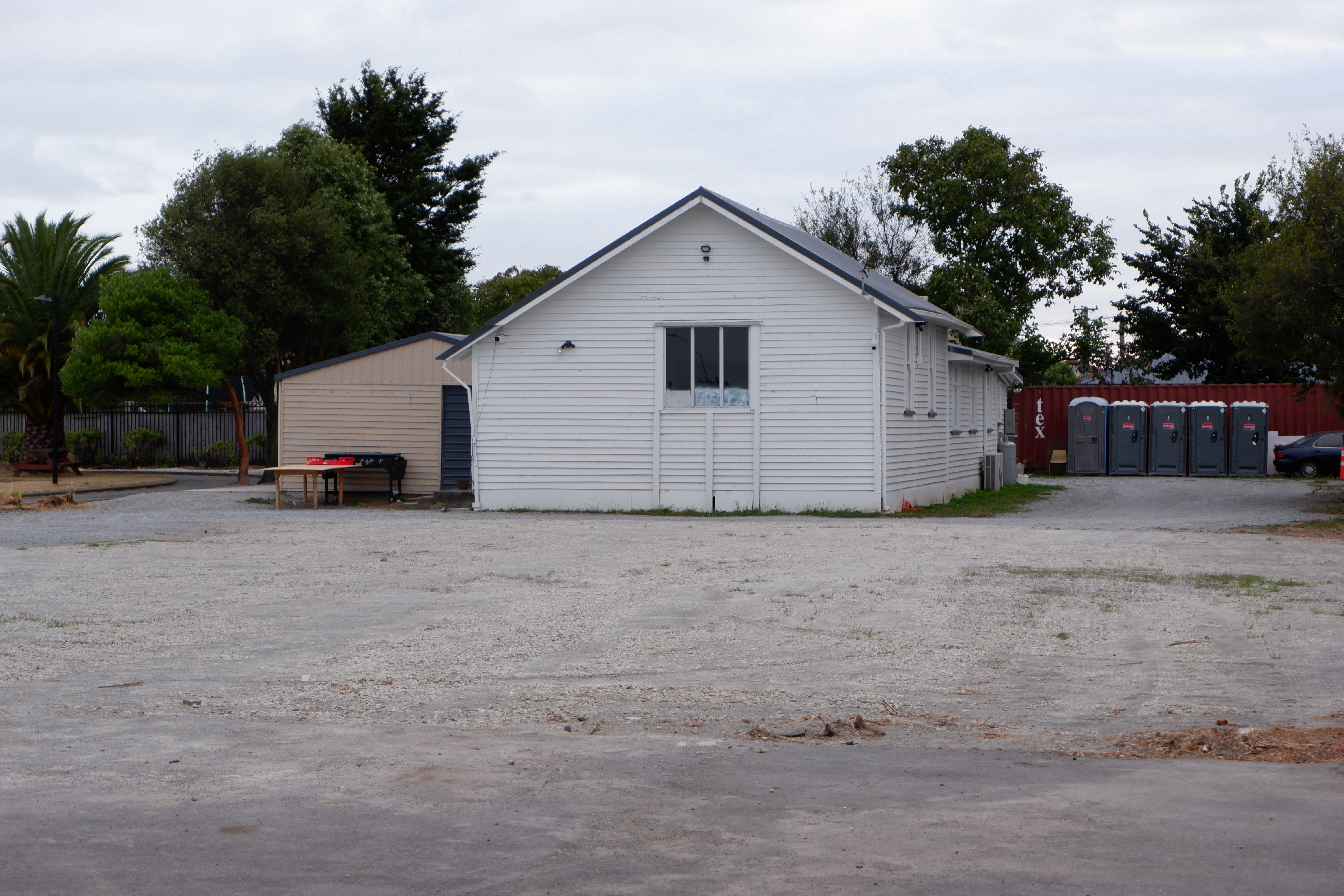 Linwood Islamic Centre in March 2020